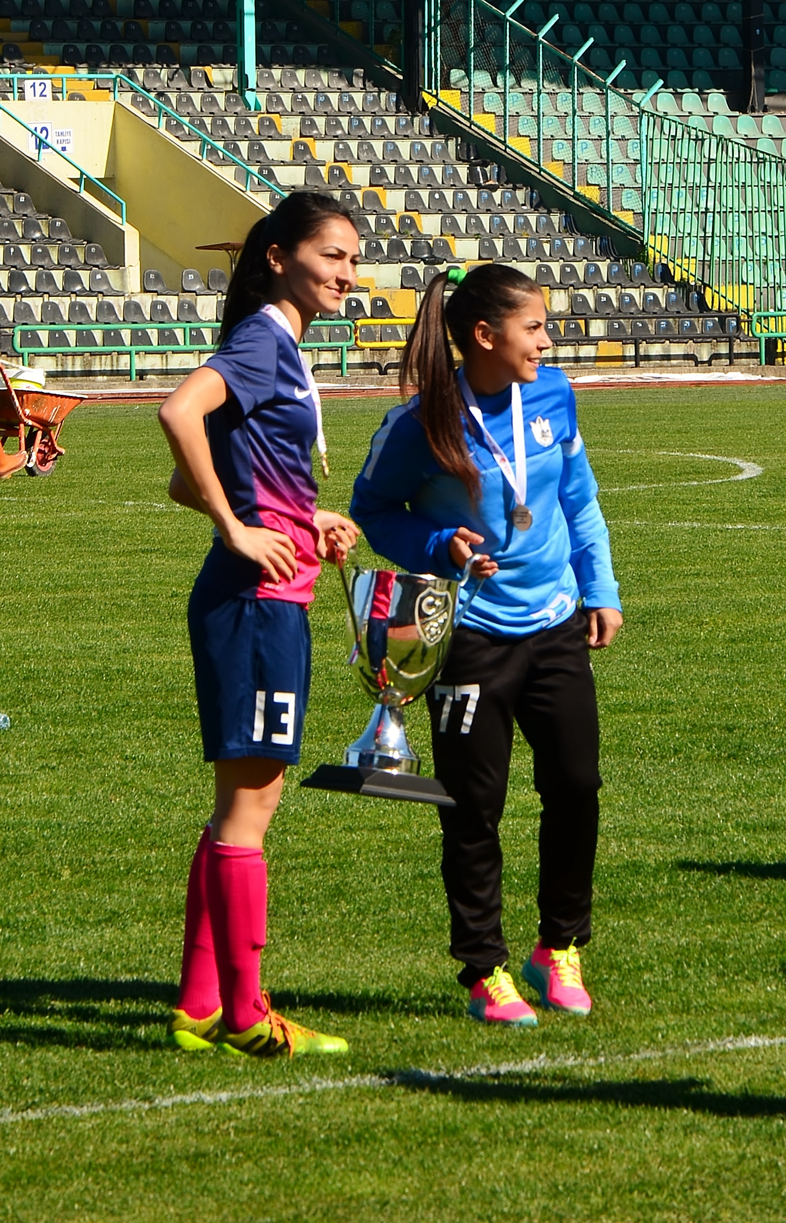 Sibel Duman (left) with Sevgi Çınar enjoying league champion title for Konak Belediyespor in the 2014-15 season